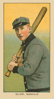 Major League Baseball player Roy Ellam